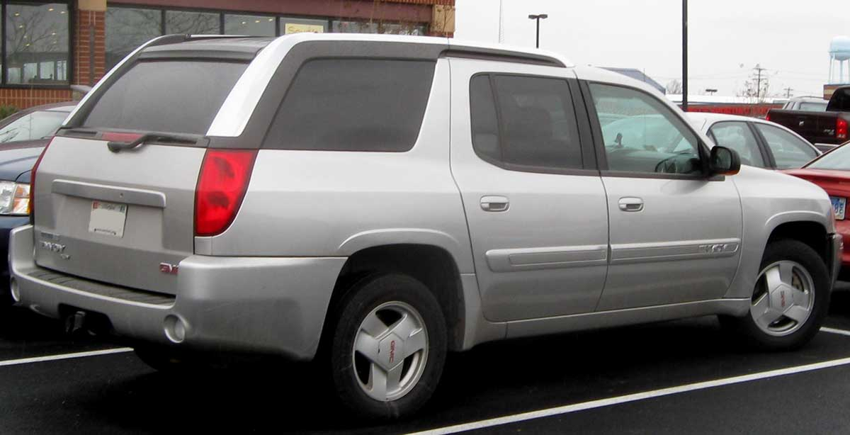 GMC Envoy XUV photographed in Waldorf, Maryland, USA.